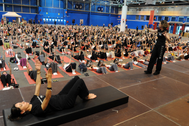 Pilates Day 2010, in Madrid.